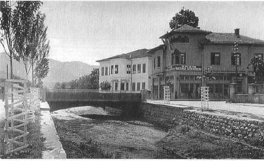 Stara reka river in Botevgrad, first half of XX century